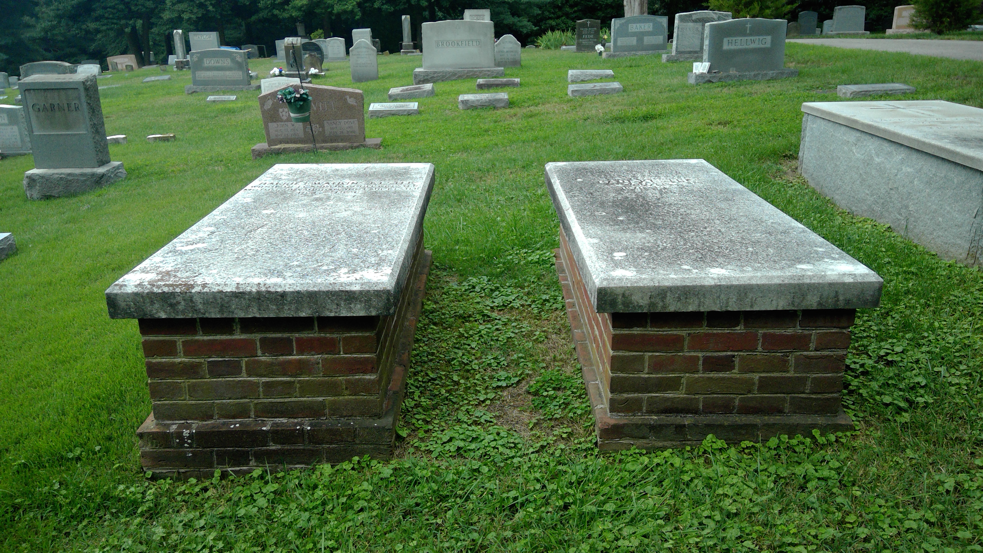 Graves of Paul Kester and his mother, Pohick Church Cemetery, Fairfax County, Virginia